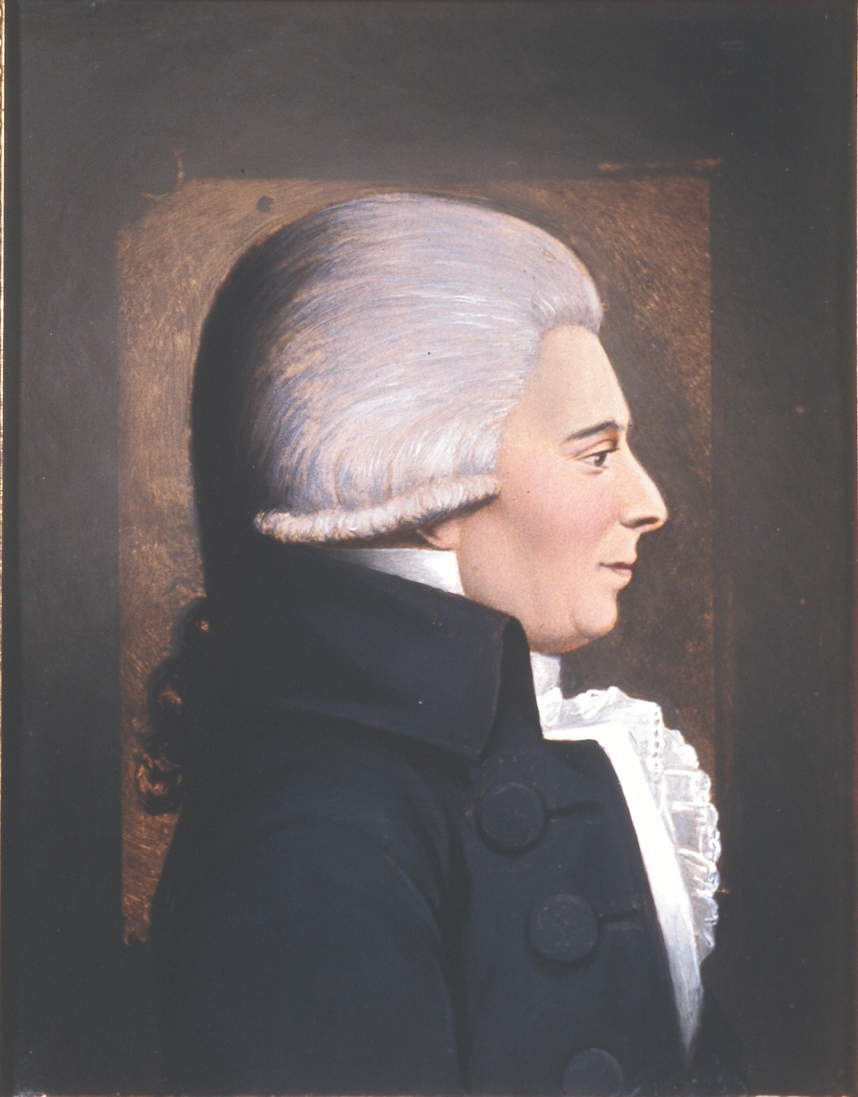 Copy after drawing by Paul Ipsen from 1791.